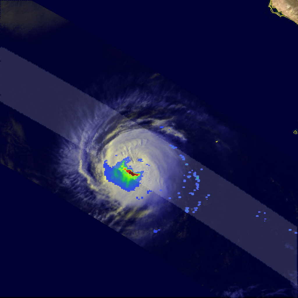 TRMM image of Hurricane Elida (2008) on 2008-07-17